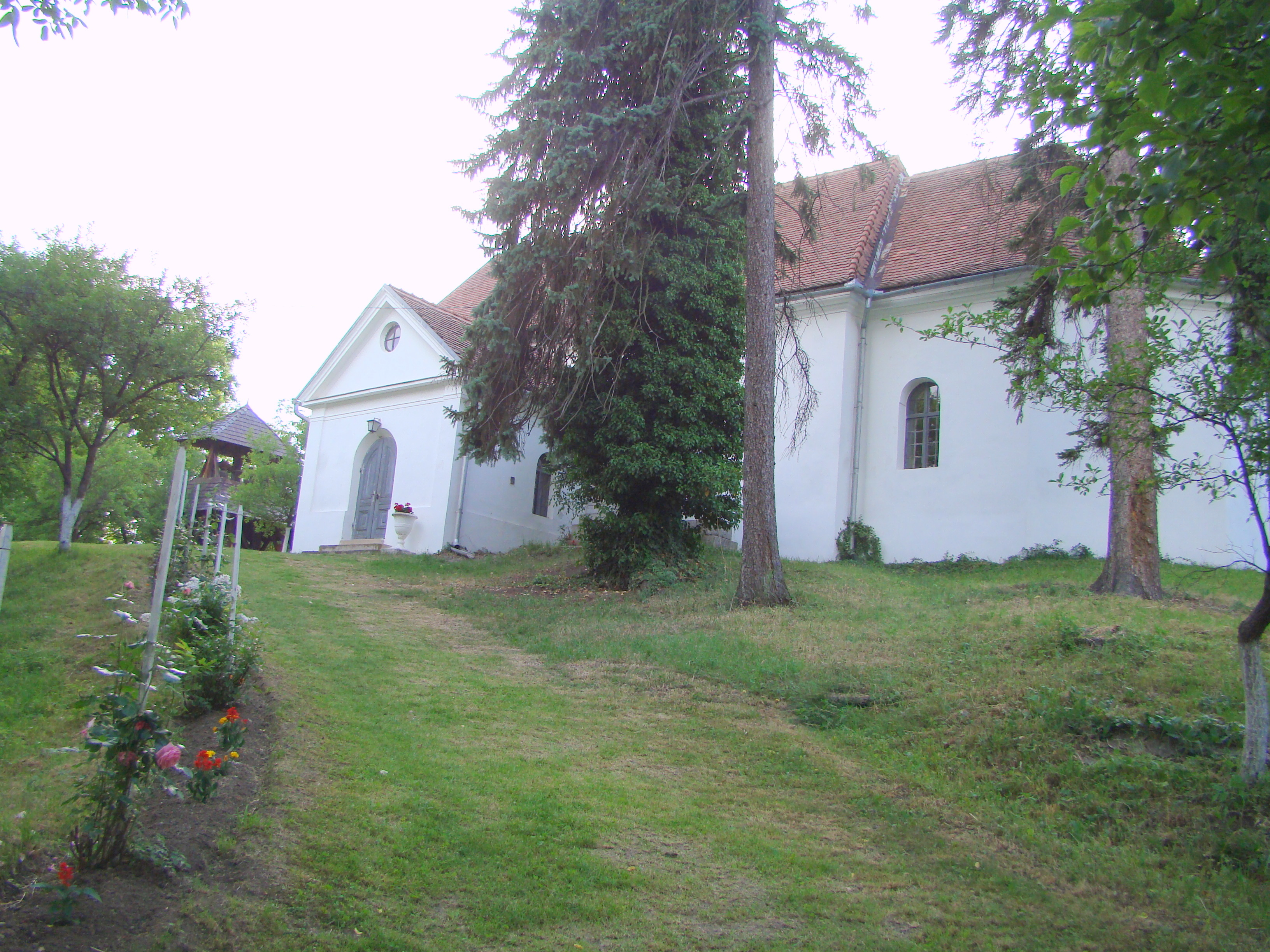 Reformed church in Brâncovenești, Mureş county, Romania